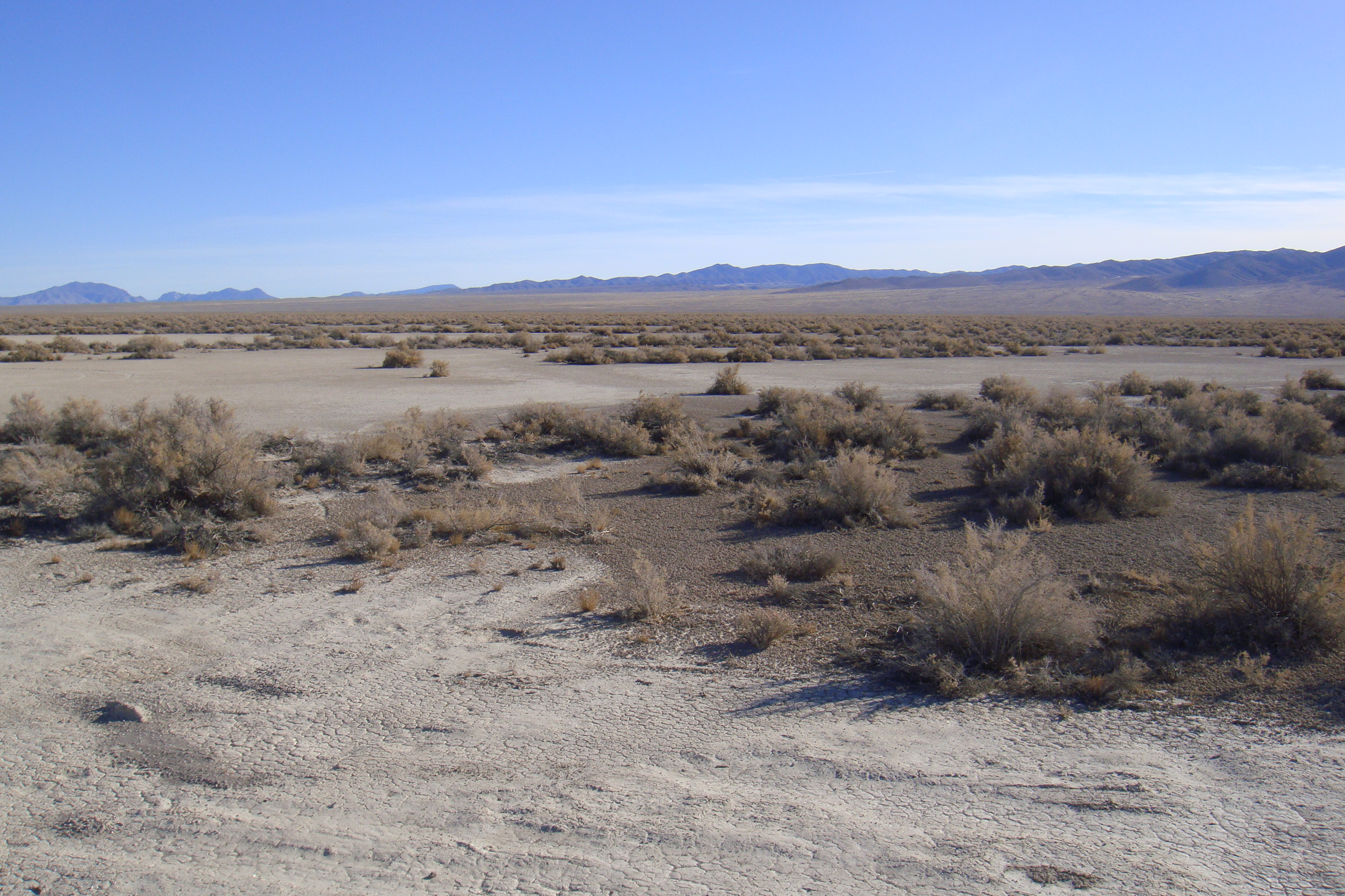 View of the Ferguson Desert and salt flat in Utah.